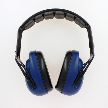 ear muffs